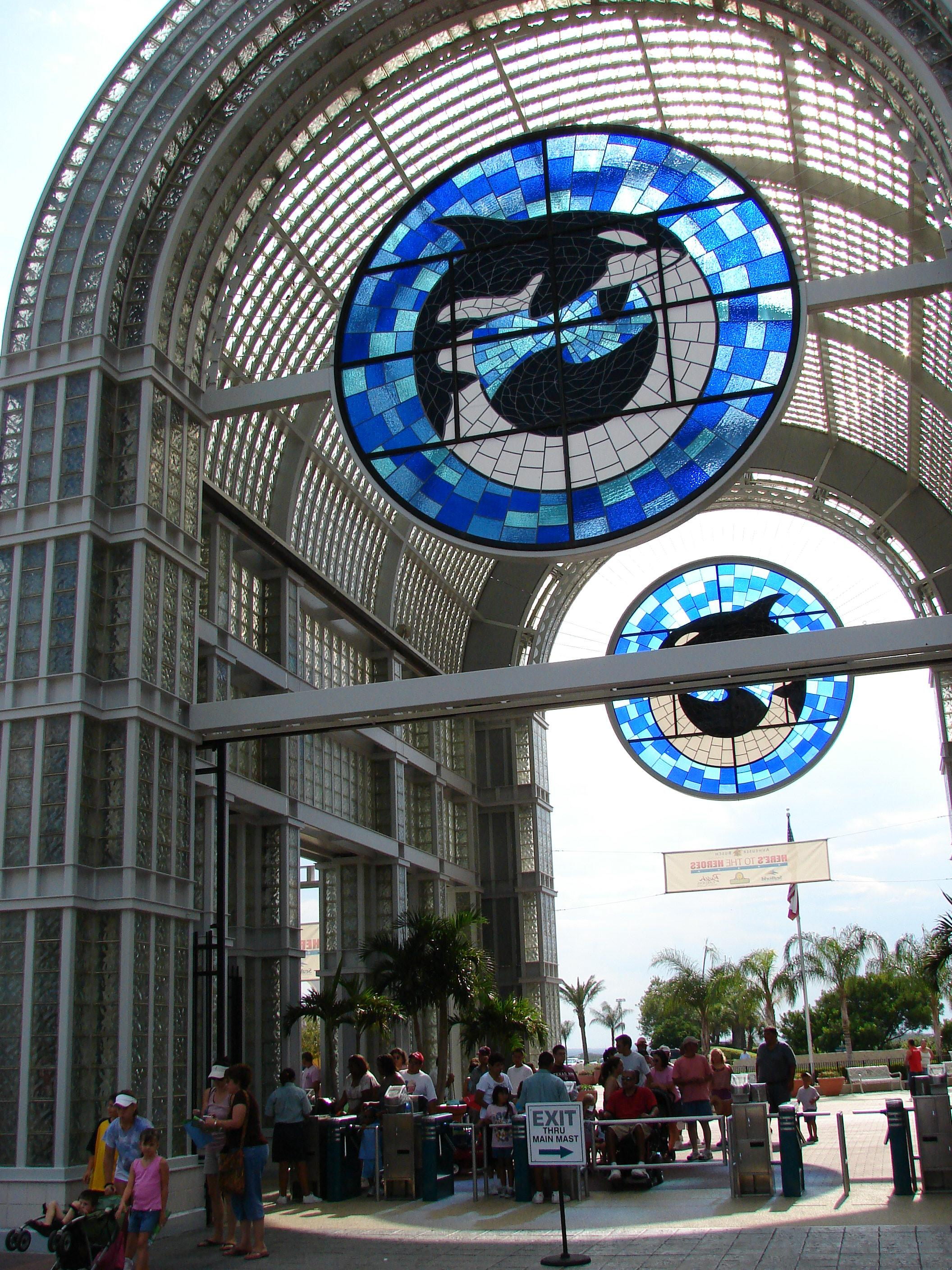 Picture taken by me in July, 2006